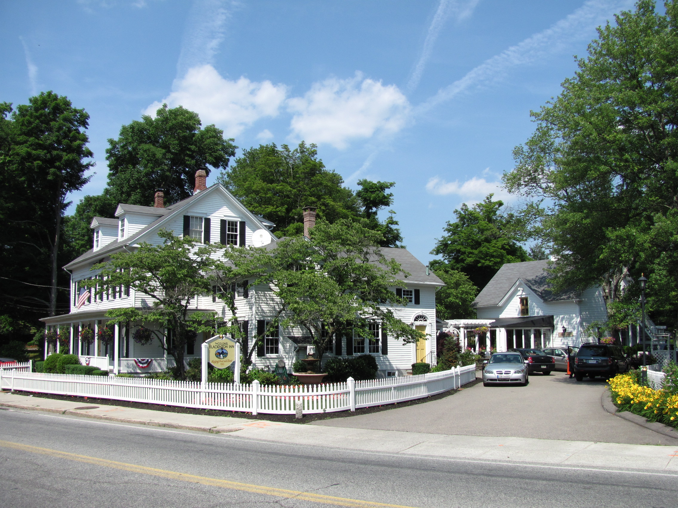 Colonel Blackinton Inn, 203 North Main Street, Attleboro Massachusetts